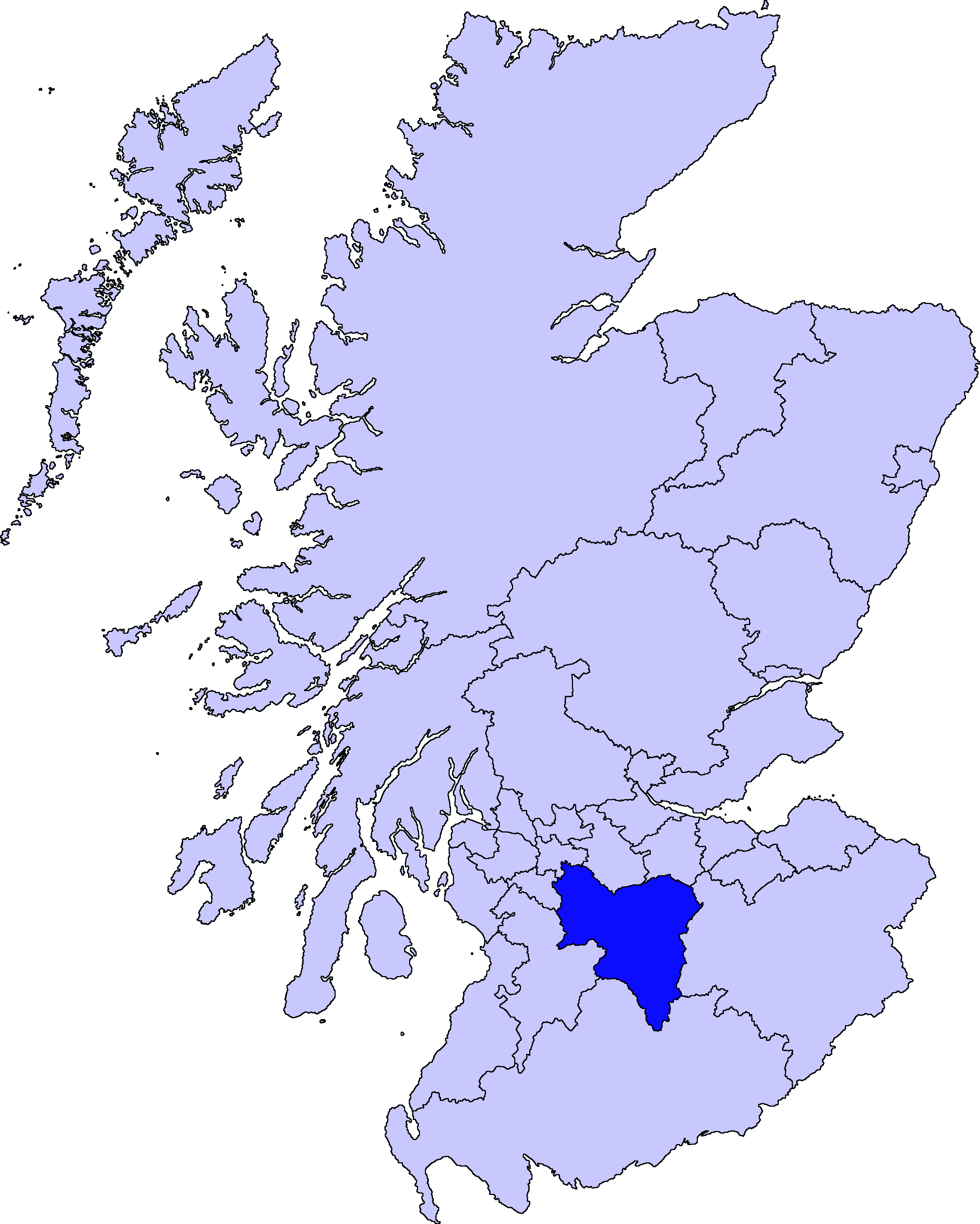 map of South Lanarkshire